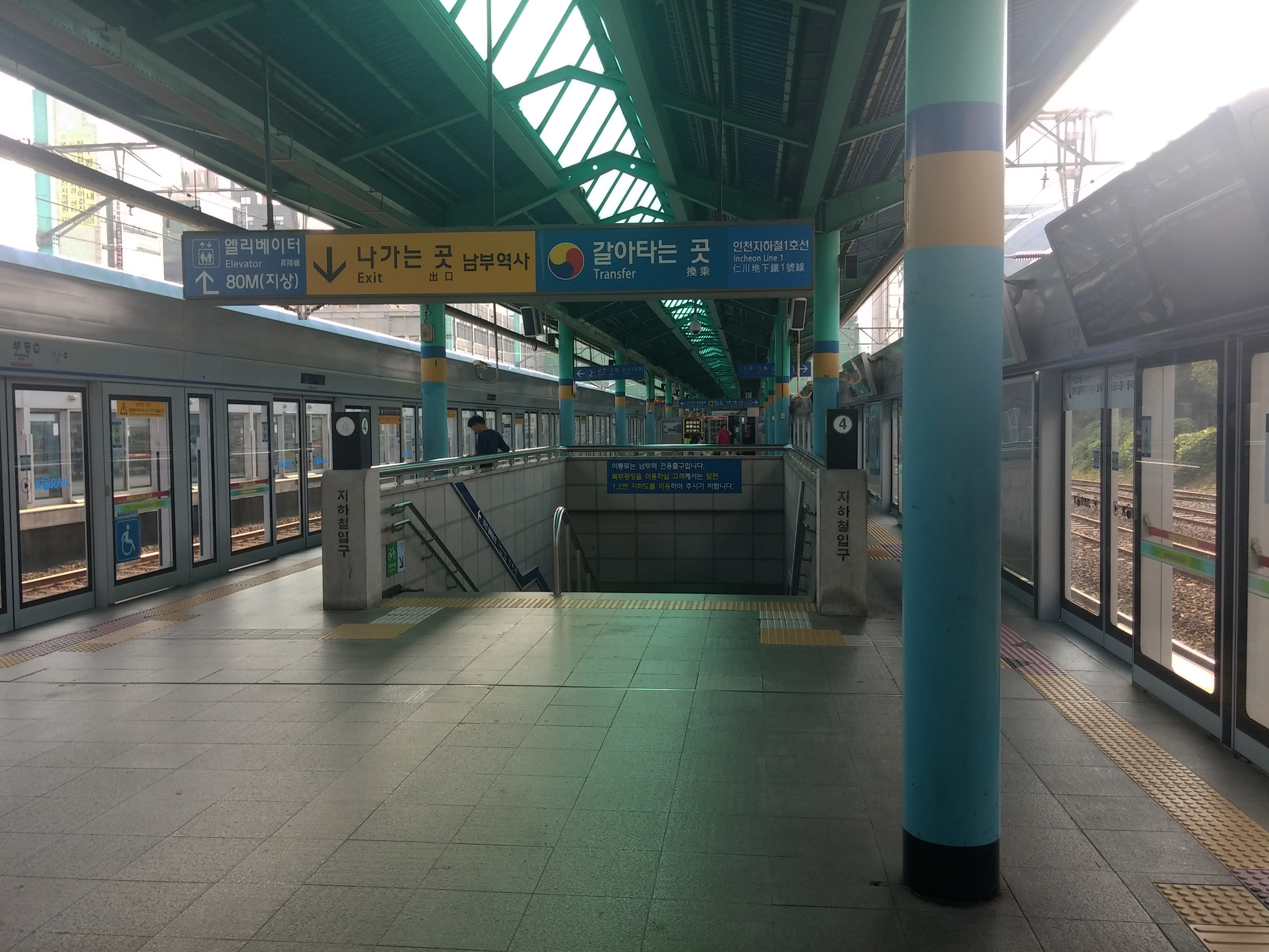 Platform No. 1 & 2 and Transfer passage, Bupyeong Station